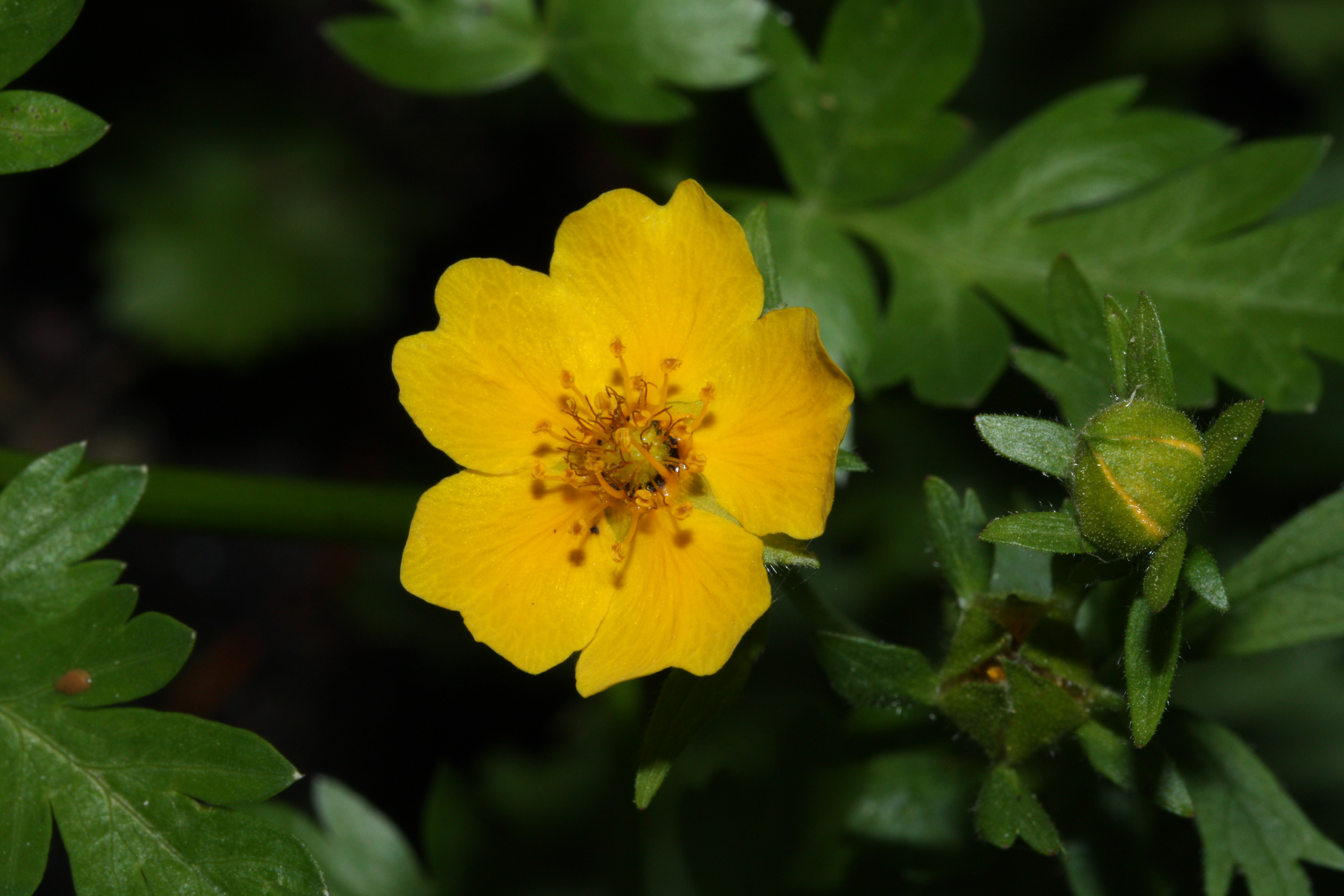 Eschscholtz's Buttercup